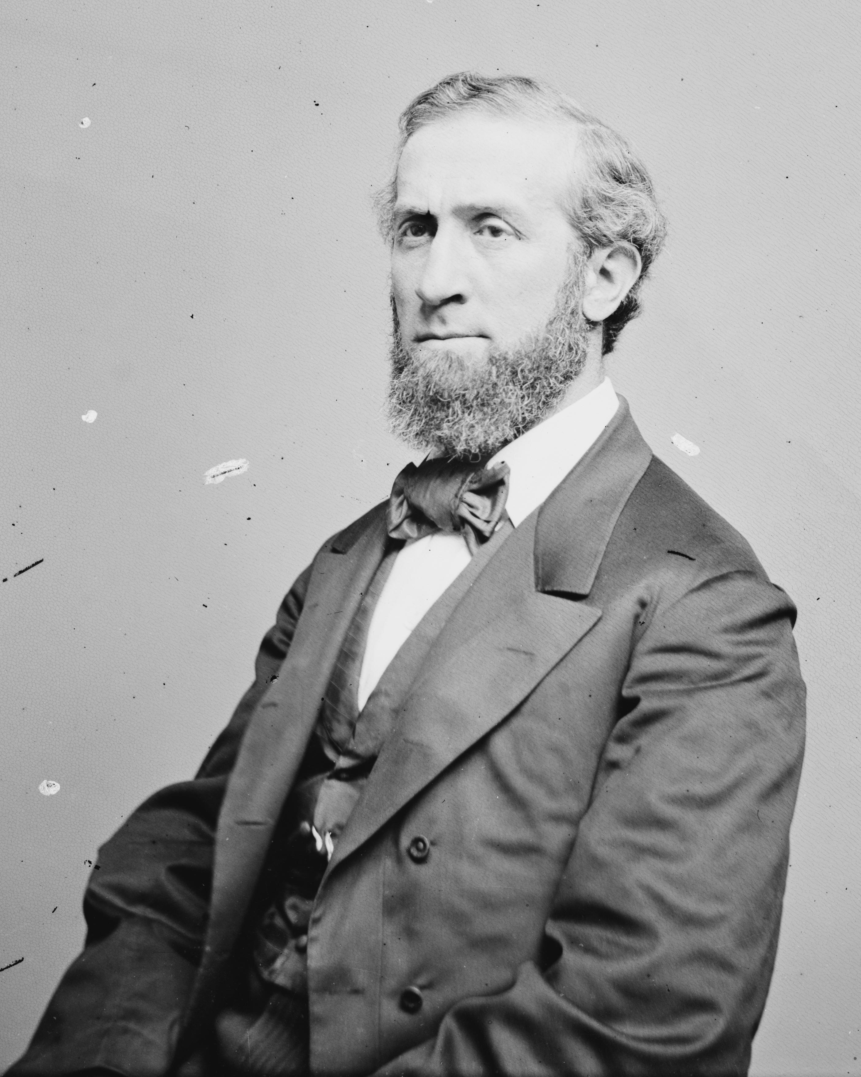 Sydenham Elnathan Ancona. Library of Congress description: "Hon. S. E. Ancona of Pa."